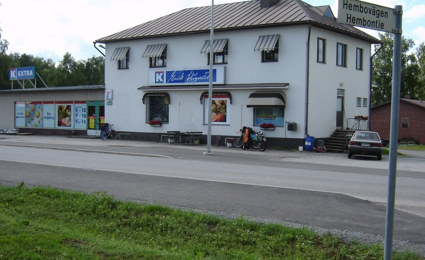 [village shop]